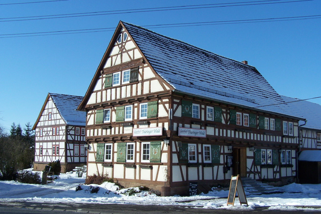 The Inn in Waldfisch village.